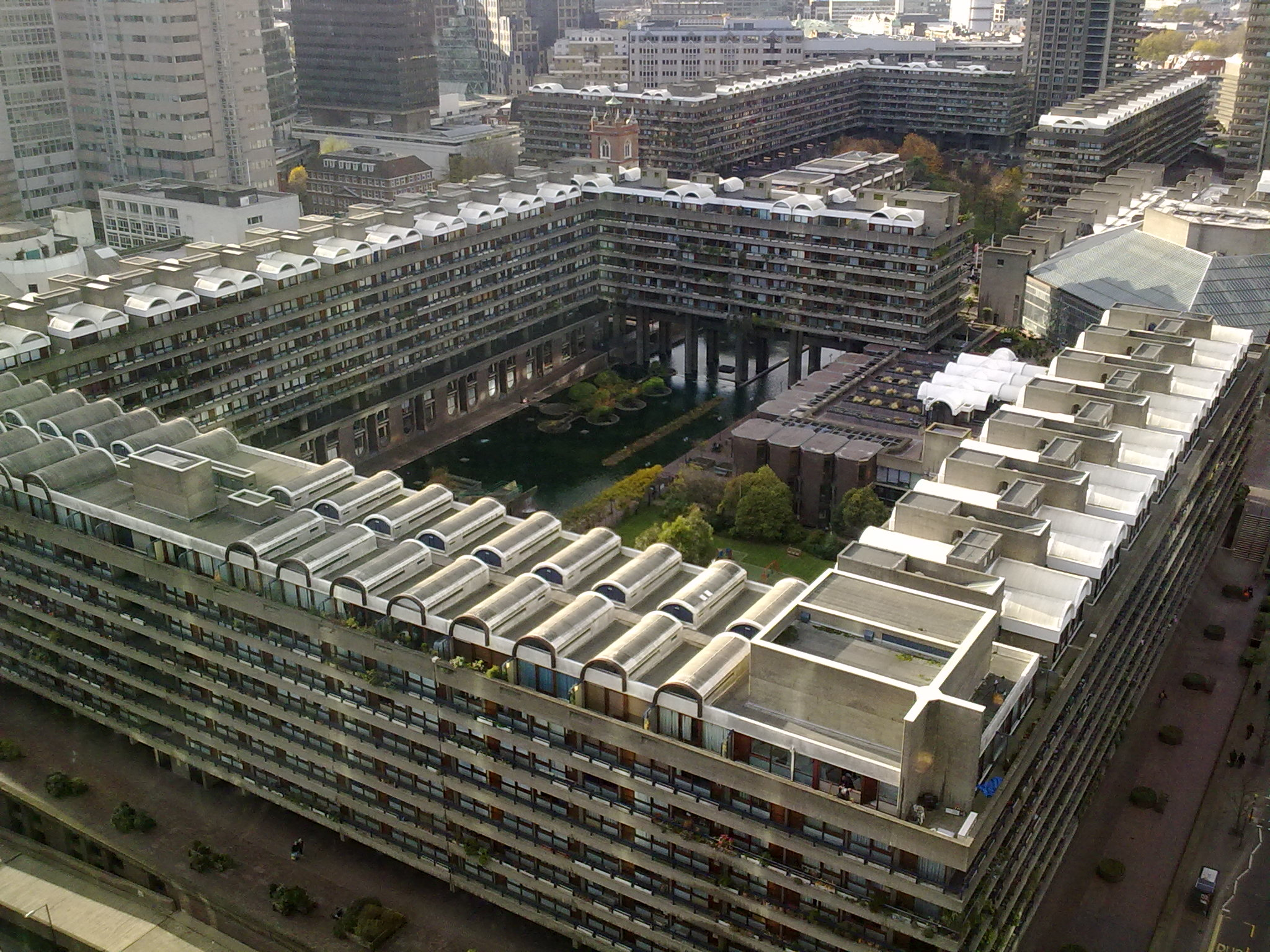 Viewed from CityPoint tower. Summary Viewed from CityPoint tower.